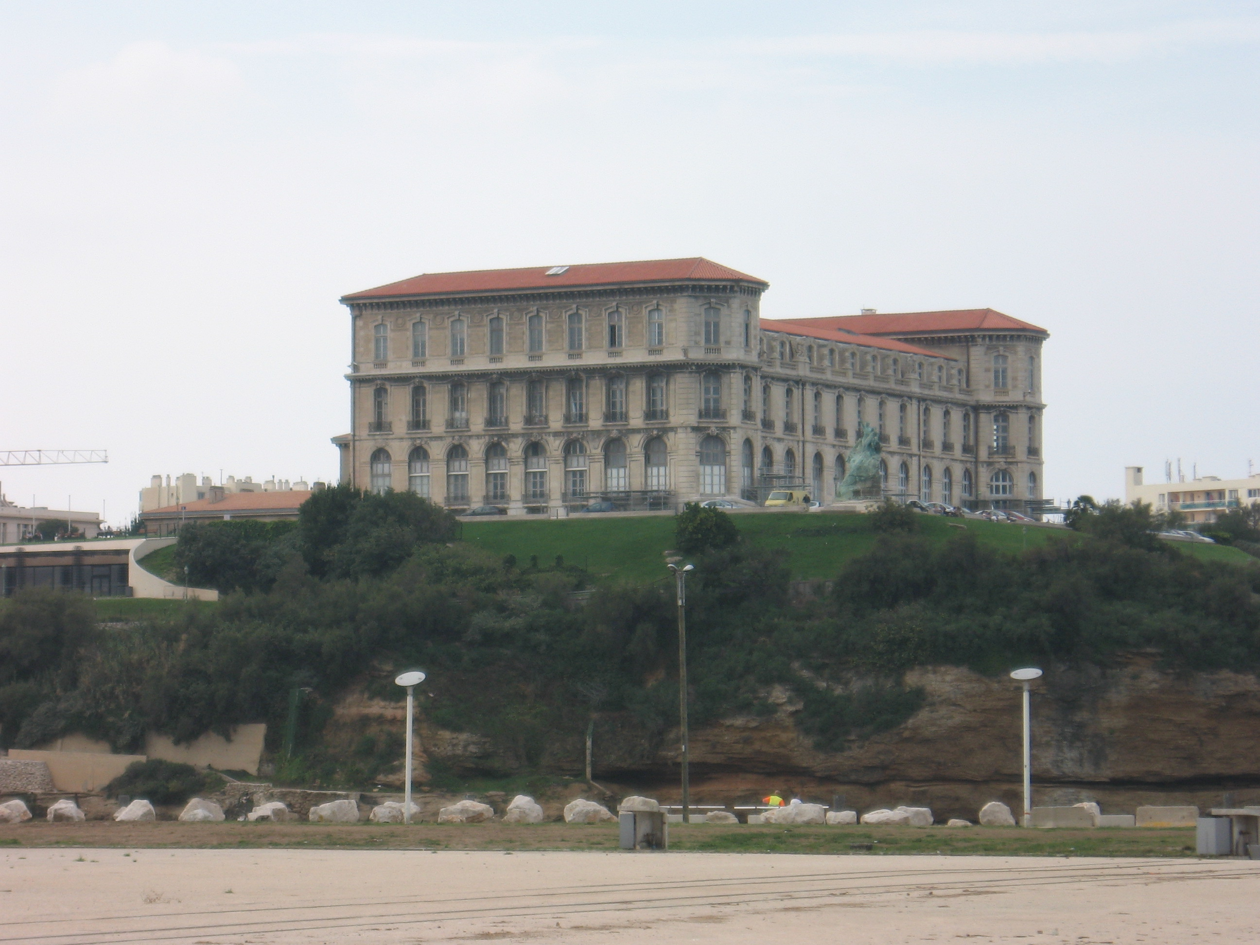 Palais du Pharo